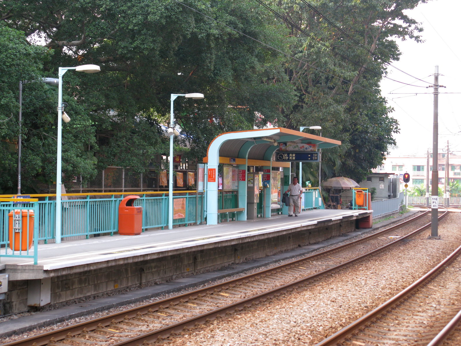 輕鐵 麒麟站 1號月台 Platform 1 of Kei Lun Stop, Light Rail